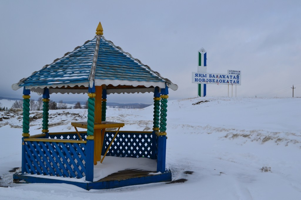 Russia. Baschkortostan